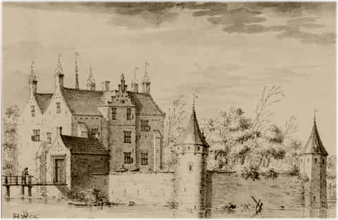 Castle Zuilichem